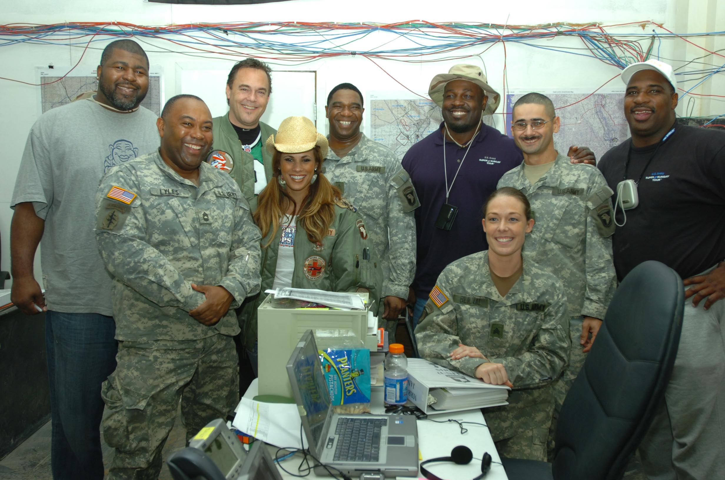 Tikrit, IQ - Keith Byars, Bryan Cox, Bonnie-Jill Laflin, Nick Lowery and Christian Okoye took the time to take numerous photographs with Soldiers working at the 3rd Brigade operating center at FOB Speicher in Tikrit, Iraq.